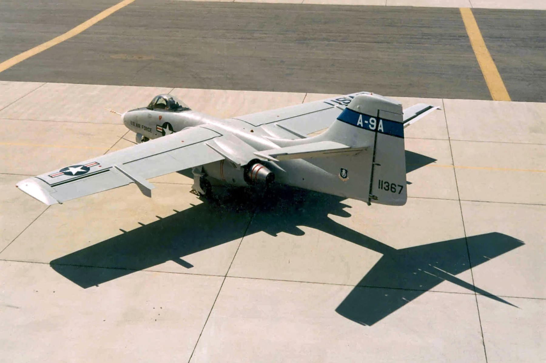 Northrop A-9A lost to A-10 Thunderbolt II